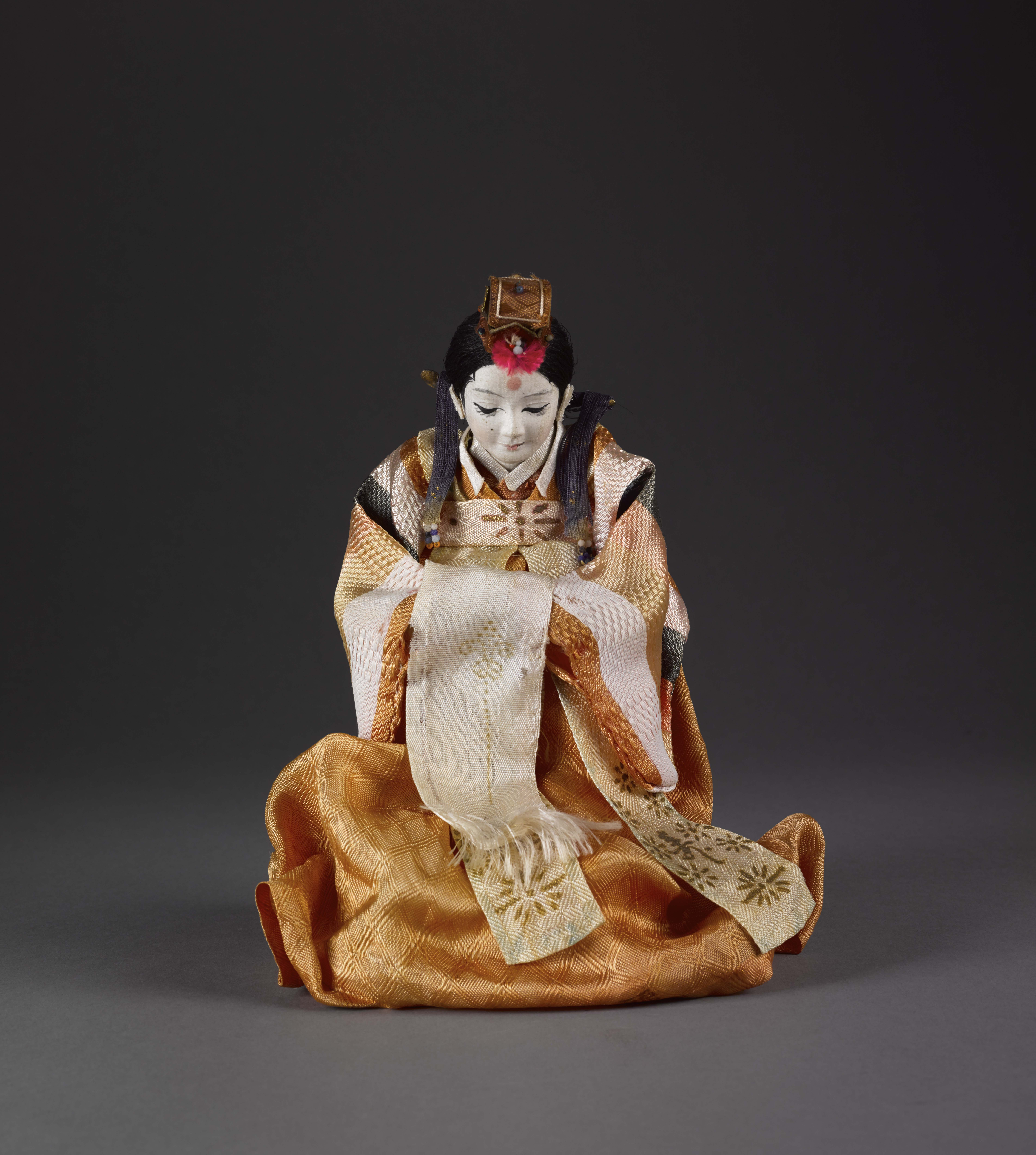 This doll wears typical Korean bridal attire from the 19th century. This includes a formal hanbock (dress), a jokduri (headpiece), a dinyeo (hair stick), and daenggi (hair ribbons). This object is currently housed in the Oxford College Archives of Emory University.